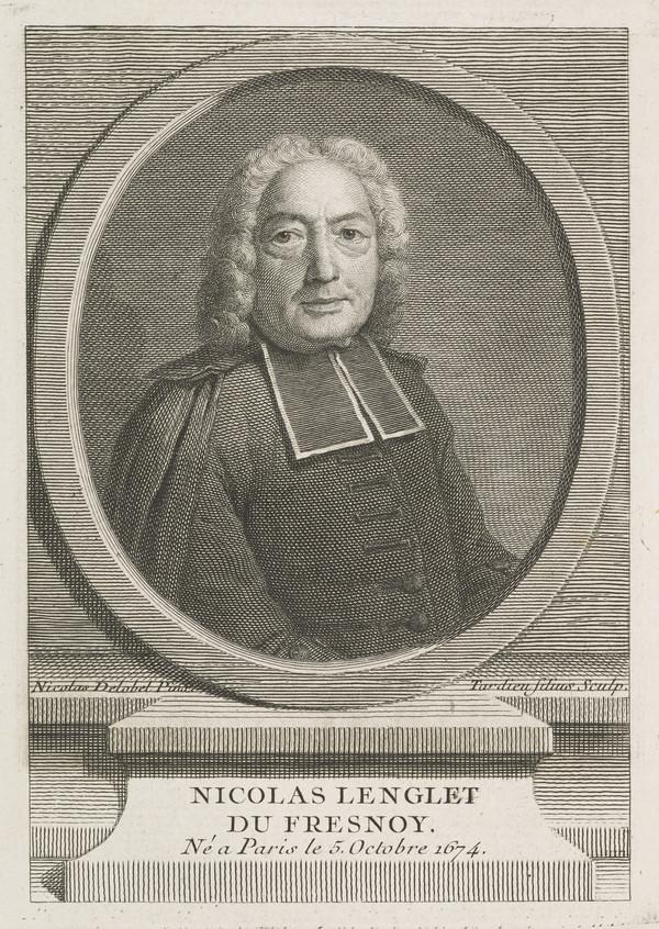 Portrait of Nicolas Lenglet Du Fresnoy (1674-1755). Engraving.